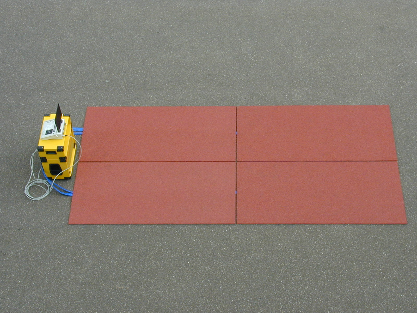 Classic ChampionChip 4 meter system setup